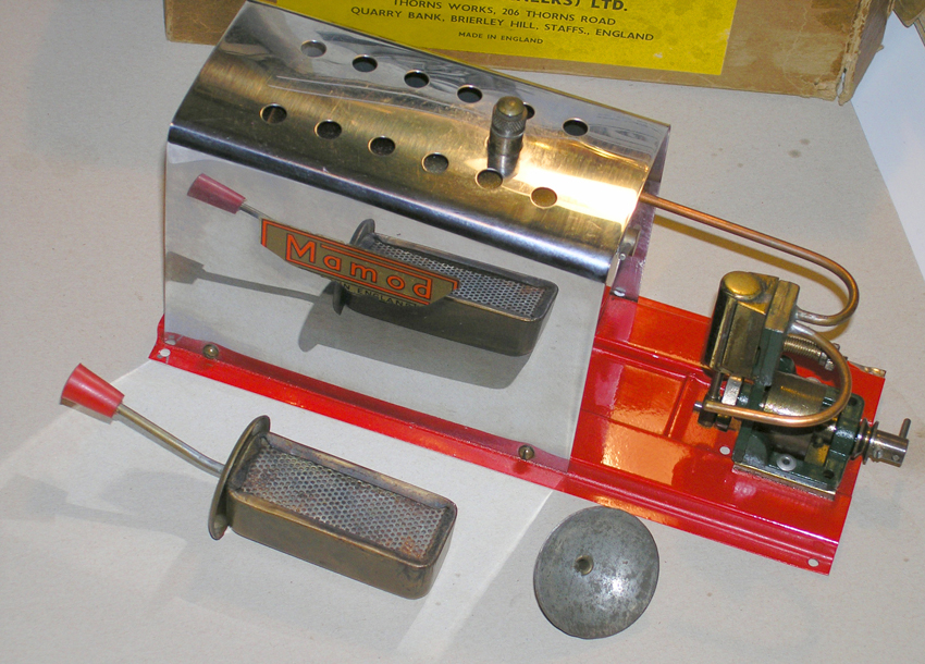 A studio shot of a near mint Mamod ME3 marine steam toy showing its SEL 1560 steam engine.